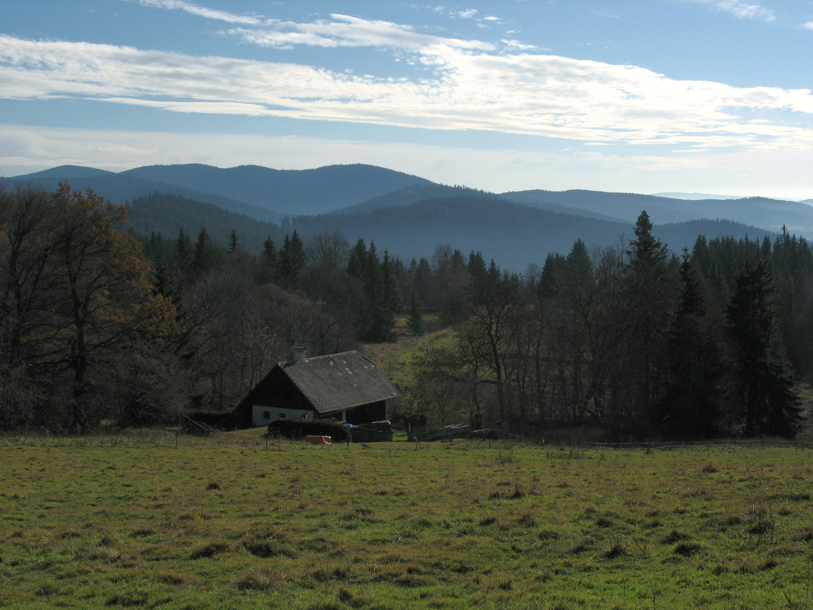 Mountains Špičák and Hvězda in Bohemian Forest (Czech republic)